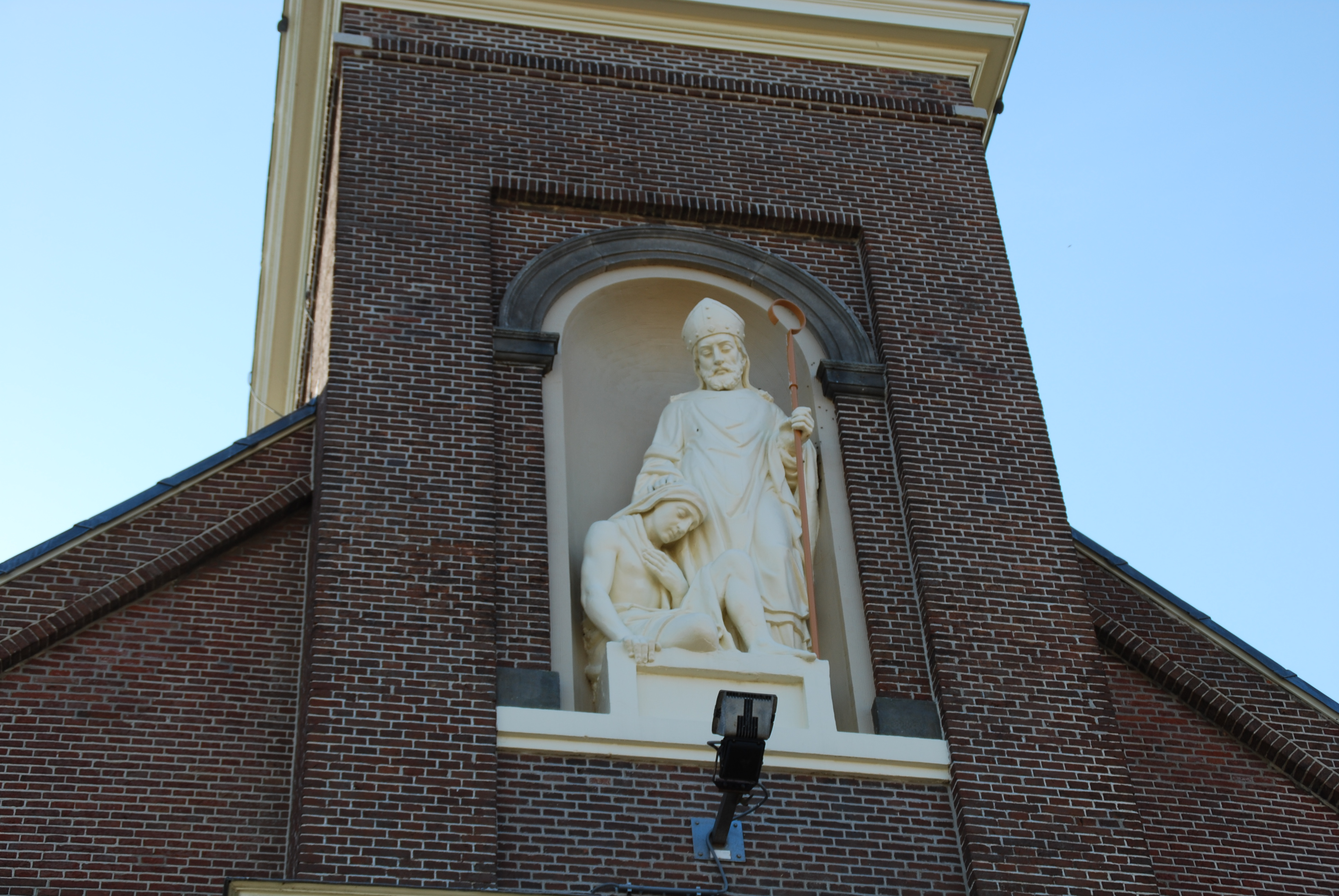 Machuteskerk Monster (Westland), the Netherlands.